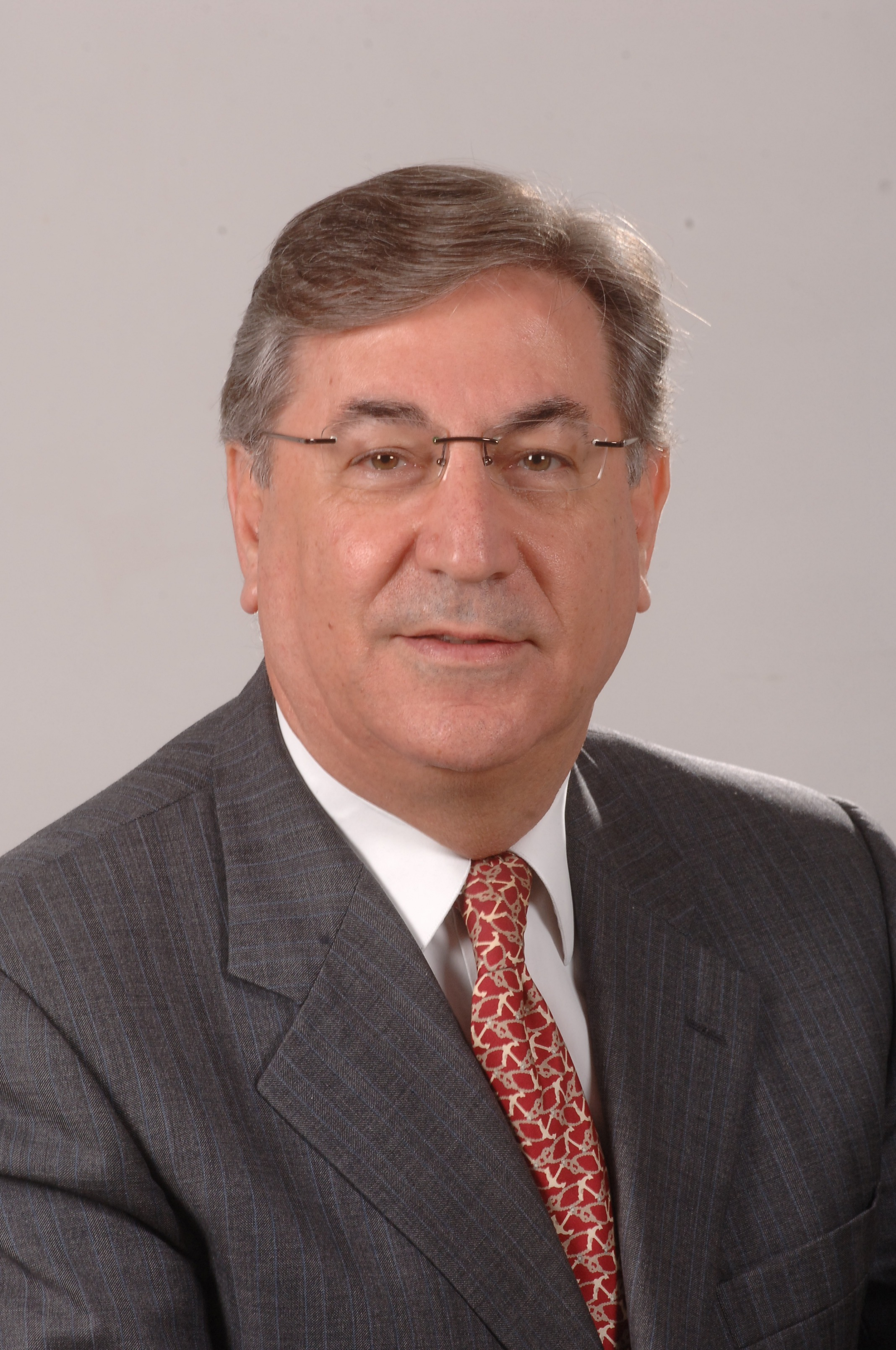 Original Profile Photo of Karmenu Vella (Politician)